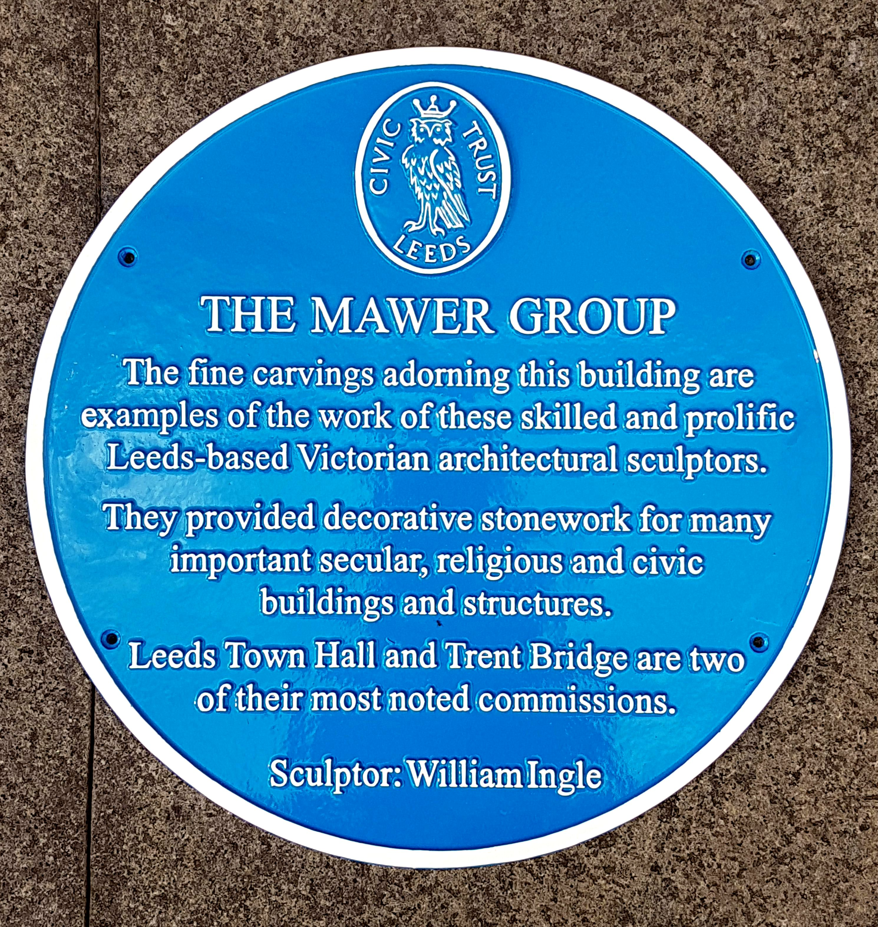 Blue plaque dedicated to Leeds sculptor William Ingle (1828-1870) and the Mawer Group. The plaque is later to be affixed to 30 Park Place, Leeds. It was unveiled by Leeds Civic Trust in Leeds, West Yorkshire, England, on 11 July 2019.